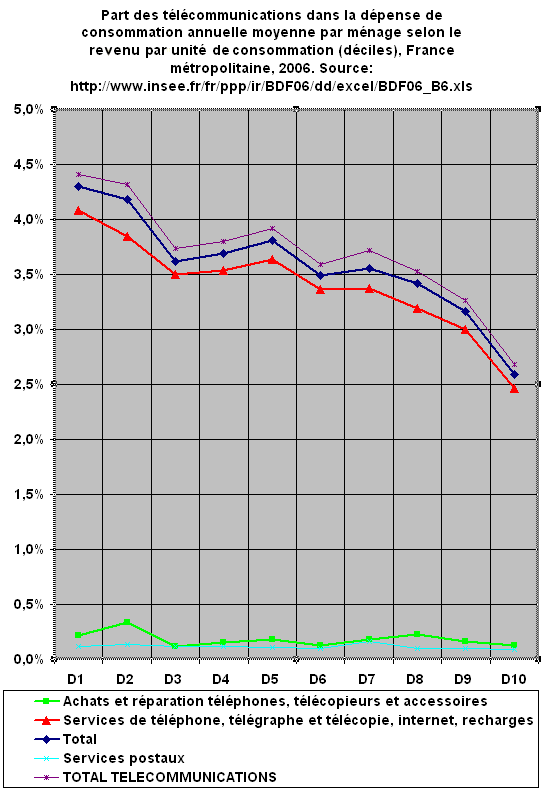 Share of telecommunications in average annual household consumption expenditure according to the decile of income per consumtion unit, metropolitan France, 2006.